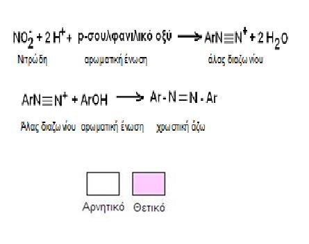 The test "Griess" for the detection of nitrite in urine